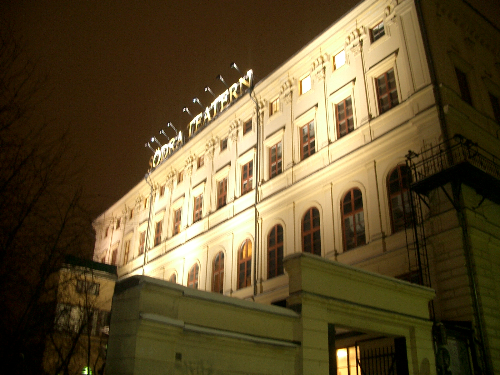 The South Theatre, Mosebacke Torg, Stockholm.